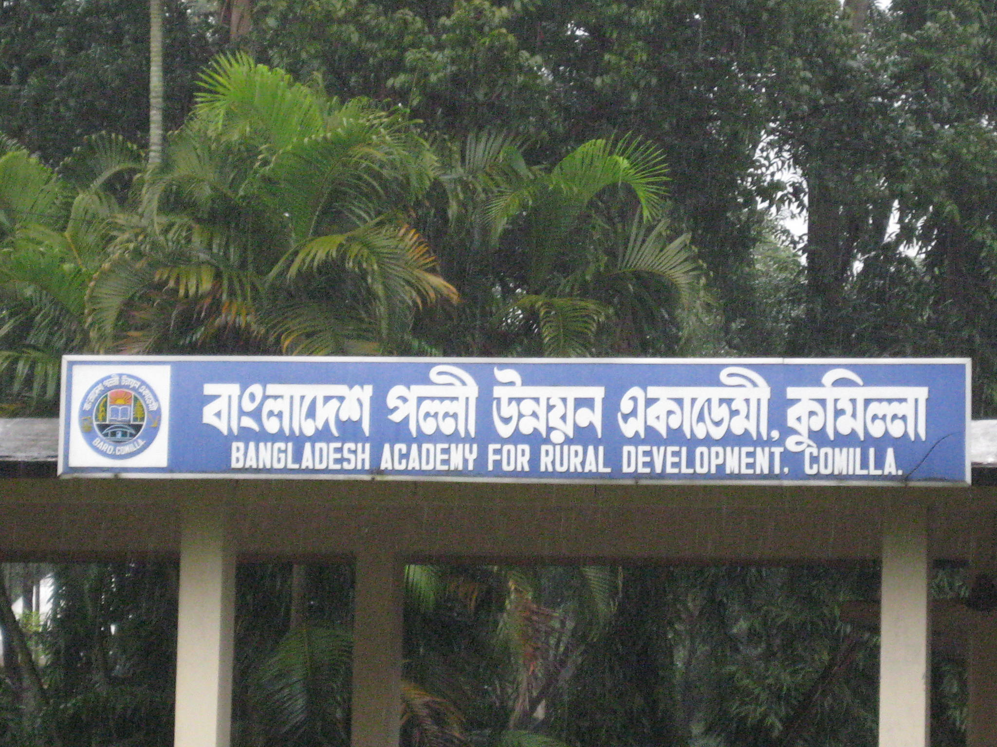 Bangladesh Academy for Rural Development at Comilla